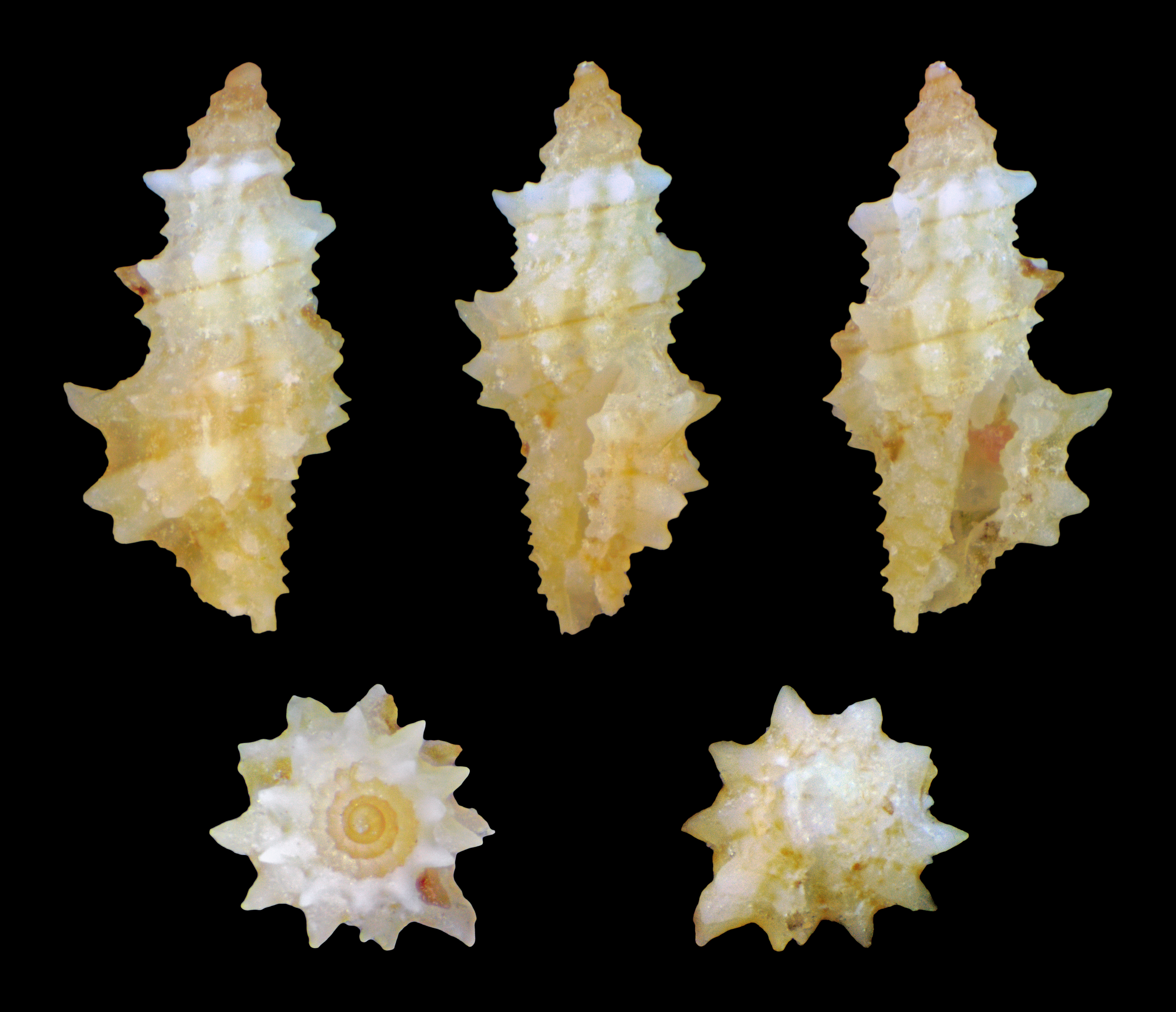 Microdaphne trichodes (Dall, 1919); Length 0.23 cm; Originating from Erg Somaya, Hurghada, Egypt. Shell of own collection, therefore not geocoded.